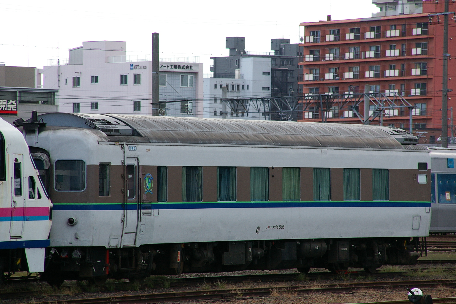 JR hokkaido SU HA NE FU 14 508 in Naebo factory.